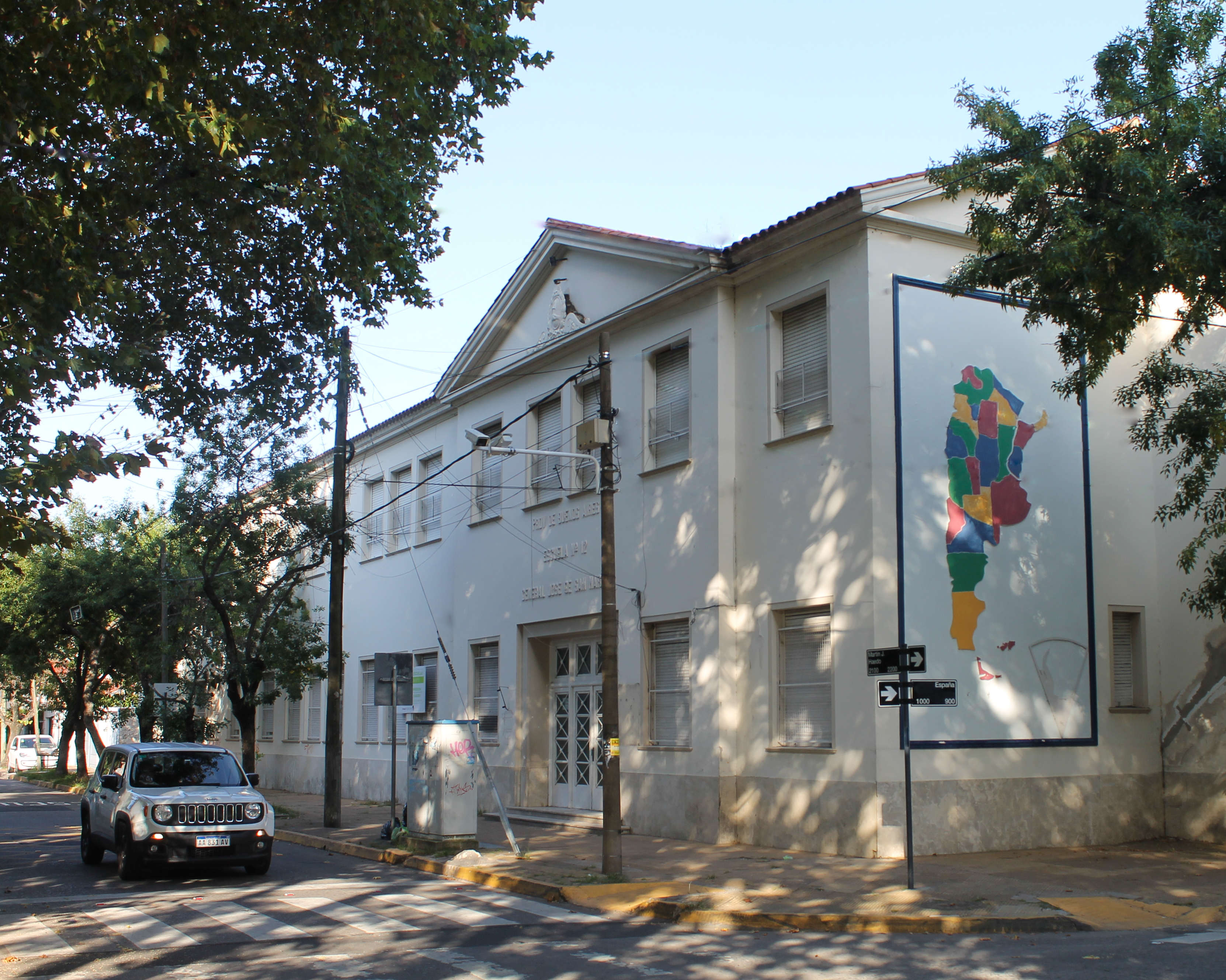 Jose de San Martin primary school in Florida, Buenos Aires Province